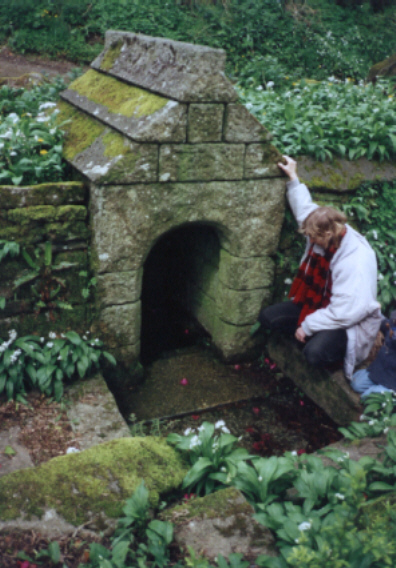 St Keyne's Holy Well. Apparently the first of a married couple to drink from the well would be 'master for life'. You cannot drink in advance and one groom ran from the church to the well as soon as they were pronounced man and wife but his wife had a flask of well water hidden under her dress! Incidentally the lady in the picture is my wife who got there first!